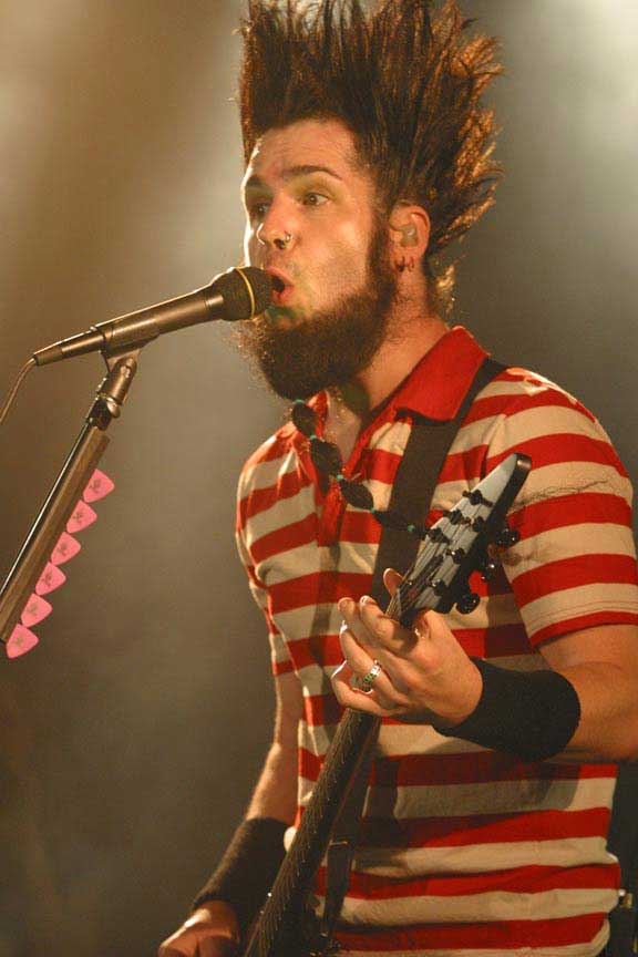 Wayne Static frontman of Static-X.